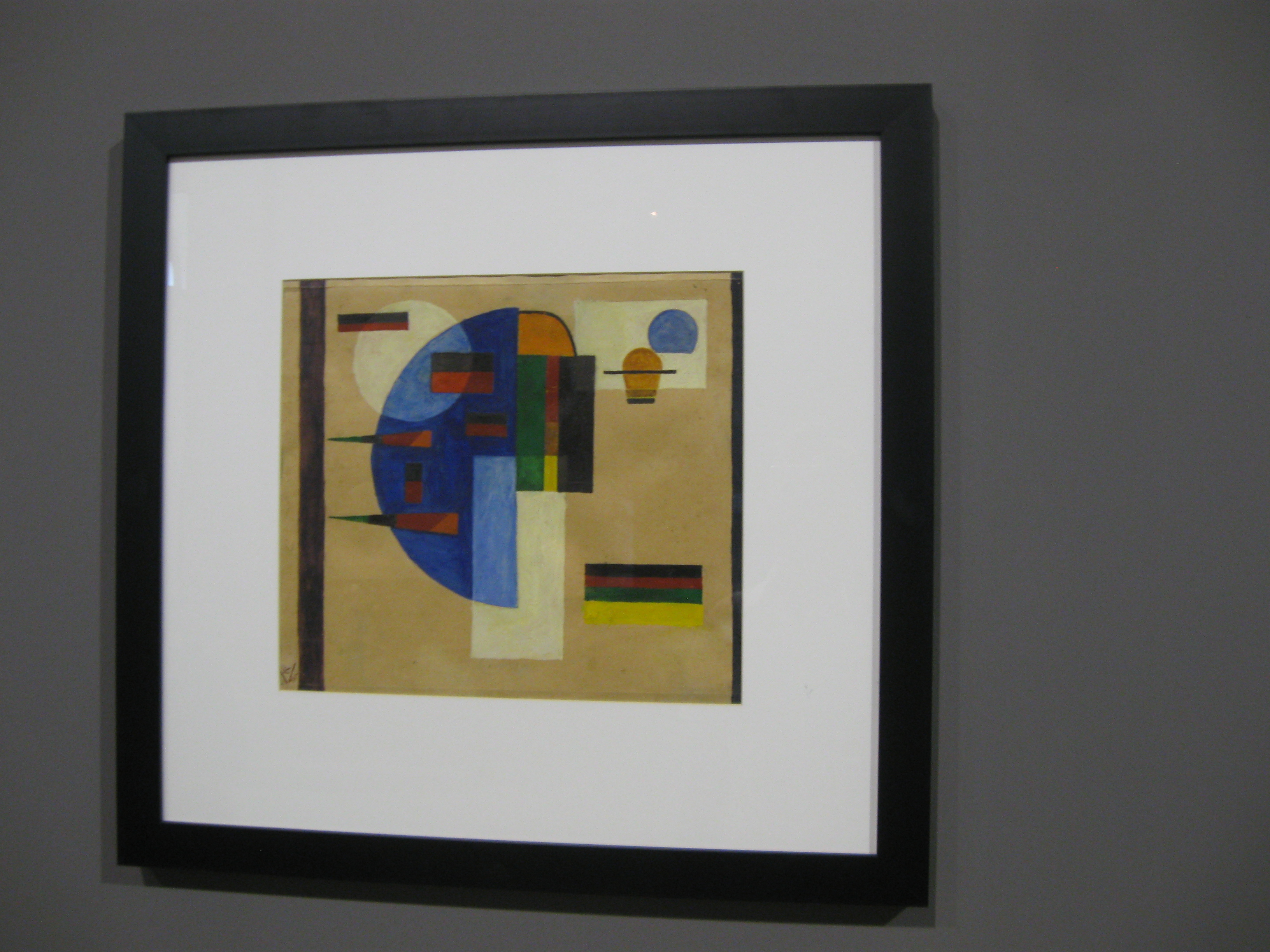 unidentified painting, probably from Kandinsky. should be checked.